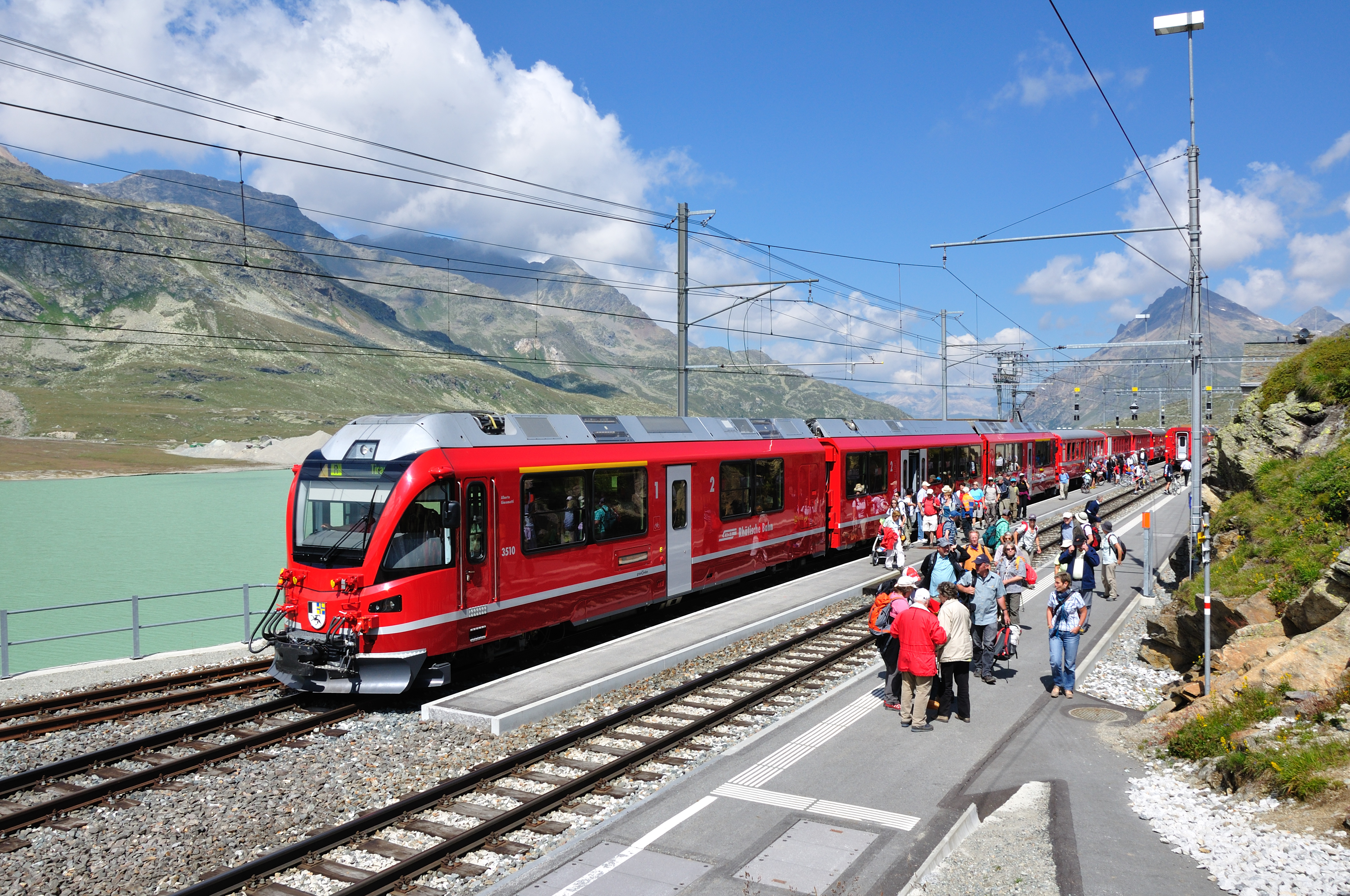 Bernina line of the Rhaetian railwayOspizio BerninaABe 8/12 with local train heading south to Tirano